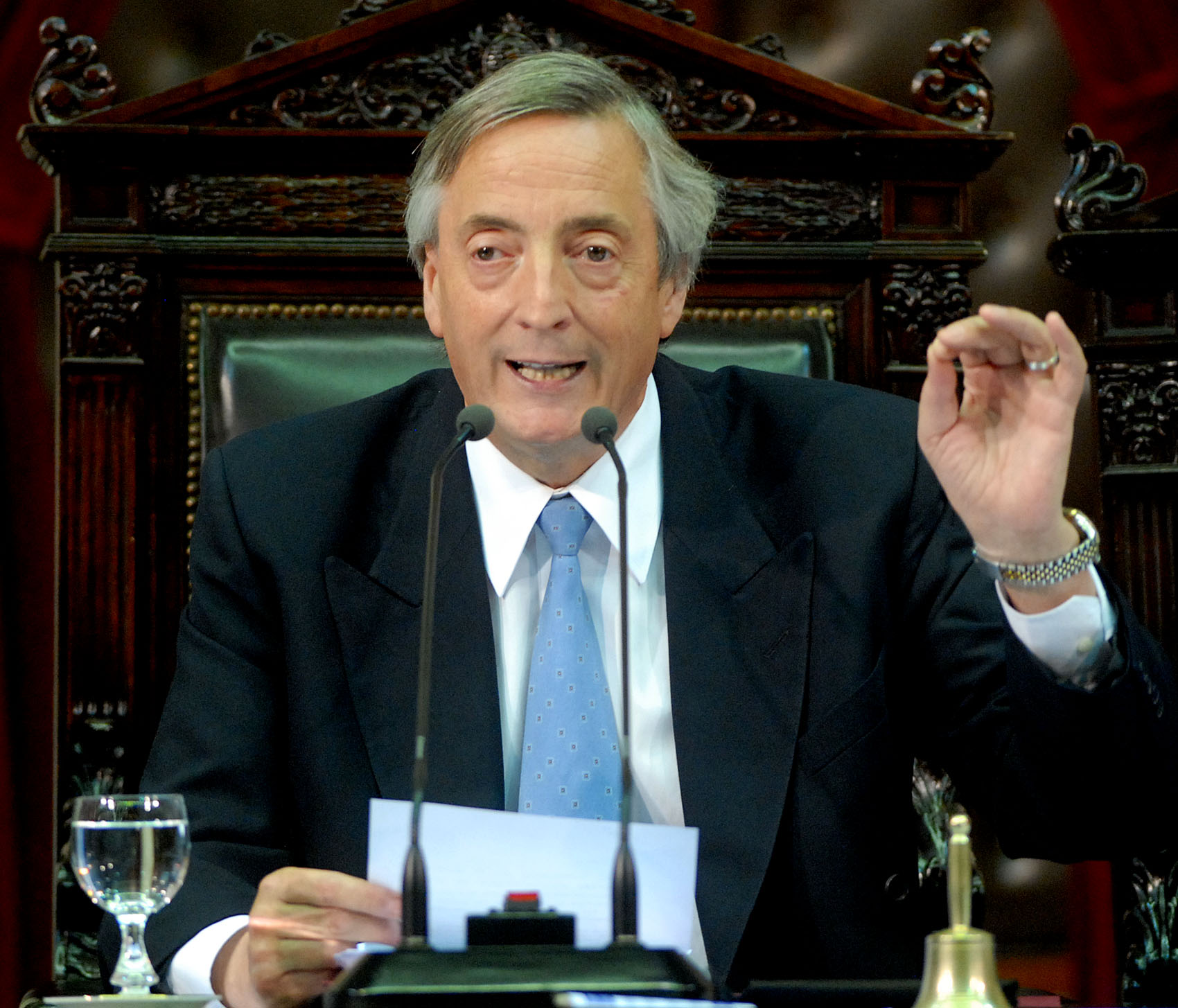 Former Argentinian President Néstor Kirchner makes a speech to Congress to open the 125º period of ordinary sessions